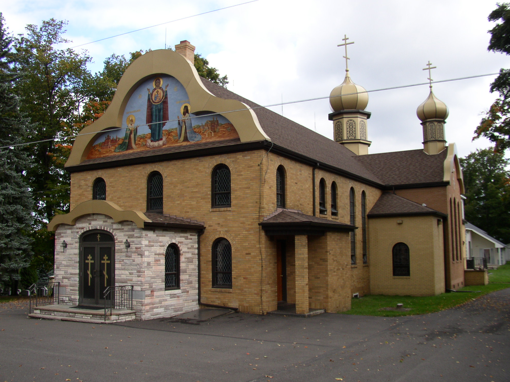 Church of St. Tikhon of Zadonsk of St. Tikhon Monastery in South Canaan